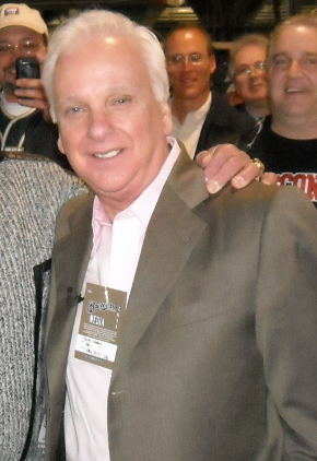 Bernie Goldberg in 2011. This file has been extracted from another file: Bob Uecker with Bernie Goldberg.jpg